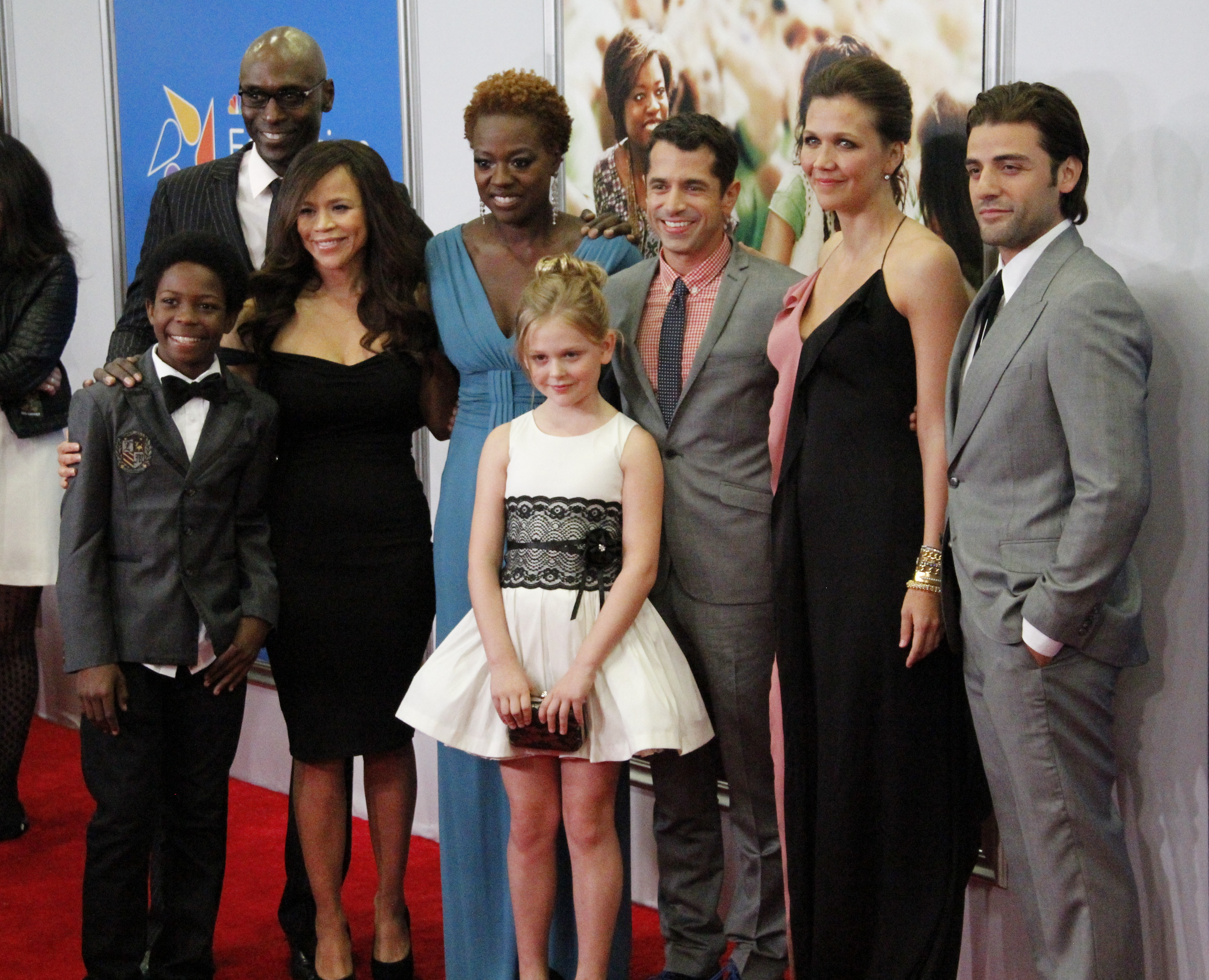 Won't Back Down Cast in NYC Premiere, Ziegfeld Theater in 2012.